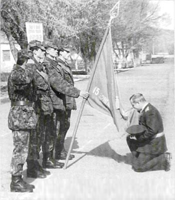 Col. Vladimir Kvachkov (kneeled) shown here kissing the war banner of 15th Spetsnaz Brigade while the Honour guard salutes him in course of the farewell ceremony. The Brigade is being transfered from the disbanded Soviet Army to the Armed Forces of Uzbekistan.